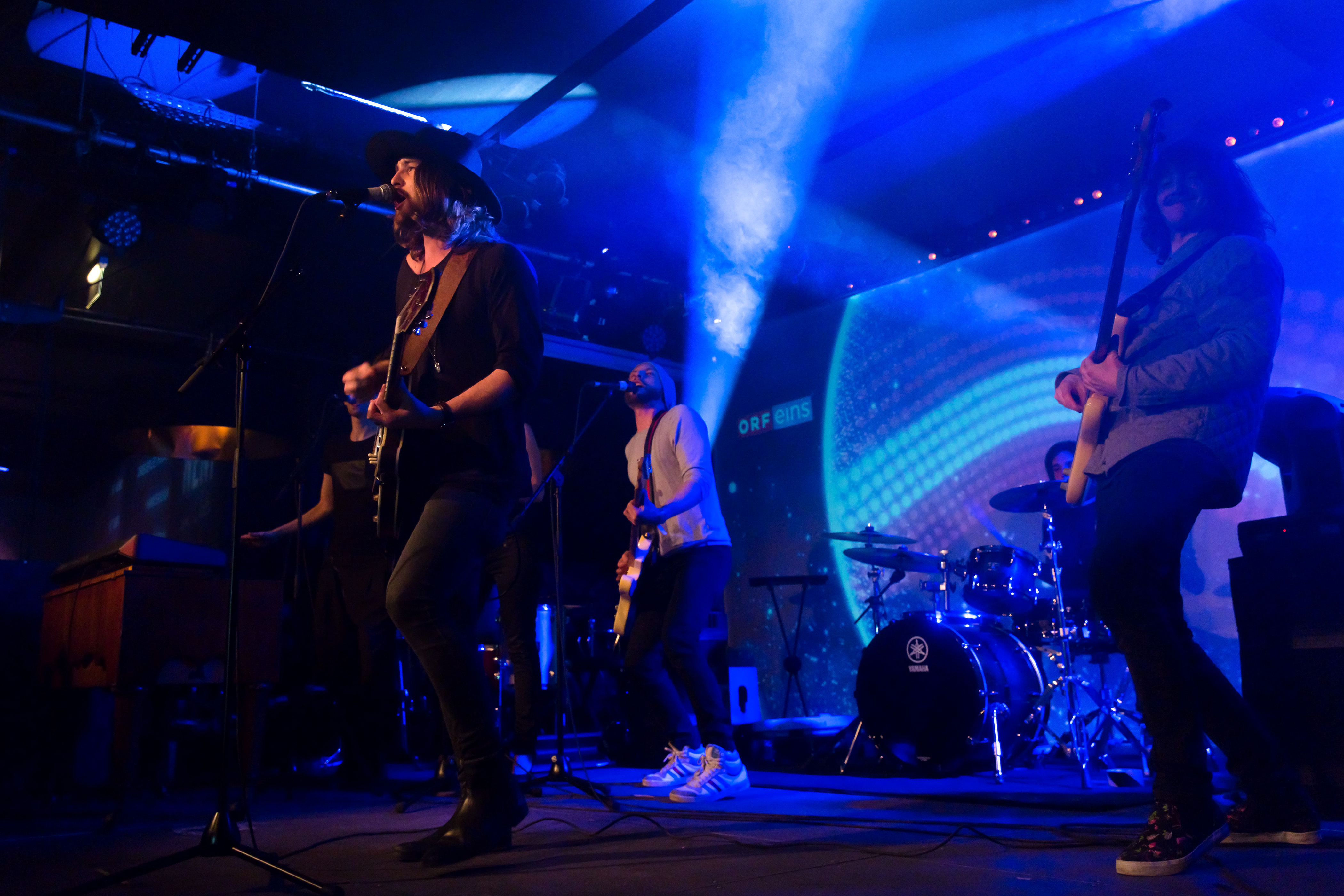 The Makemakes at the concert of the Austrian candidates for participating at the Eurovision Song Contest 2015; Chaya Fuera, Vienna,Austria.